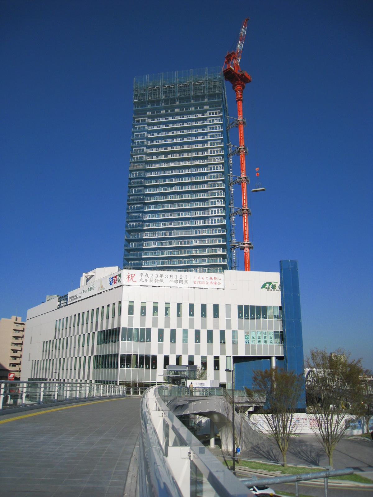 The Kumamoto Tower, located in Block East A, in front of Kumamoto Station, will open in Spring 2012